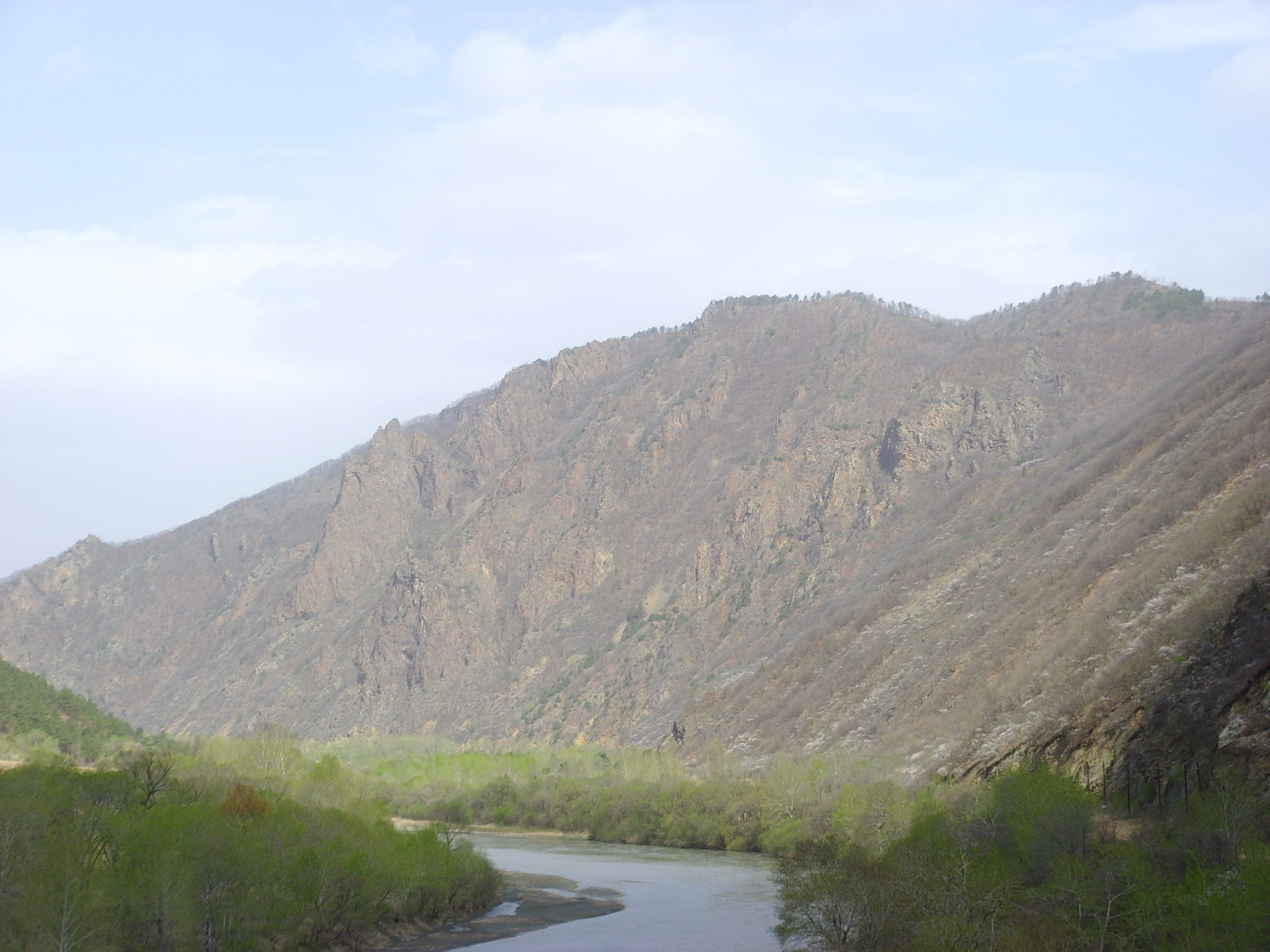 天佛指山 九龙岩, the Tumen River near Songhak-ri